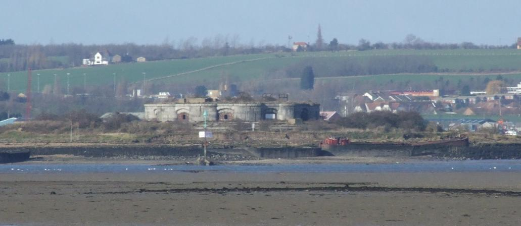 Hoo Fort on the Hoo salt marsh in the Medway estuary in Kent, United Kingdom. It was one of the Palmerston forts, forming the outer ring of defences for Chatham Dockyard. Behind we can see the edge of Hoo St Werburgh. s - Google Maps - Google Earth